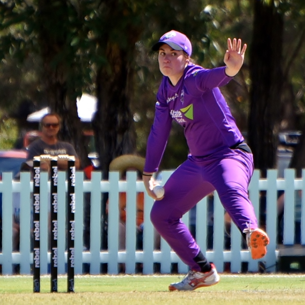 Hobart Hurricanes bowler Maisy Gibson bowling against the Perth Scorchers, in a WBBL match at Lilac Hill Park in Perth